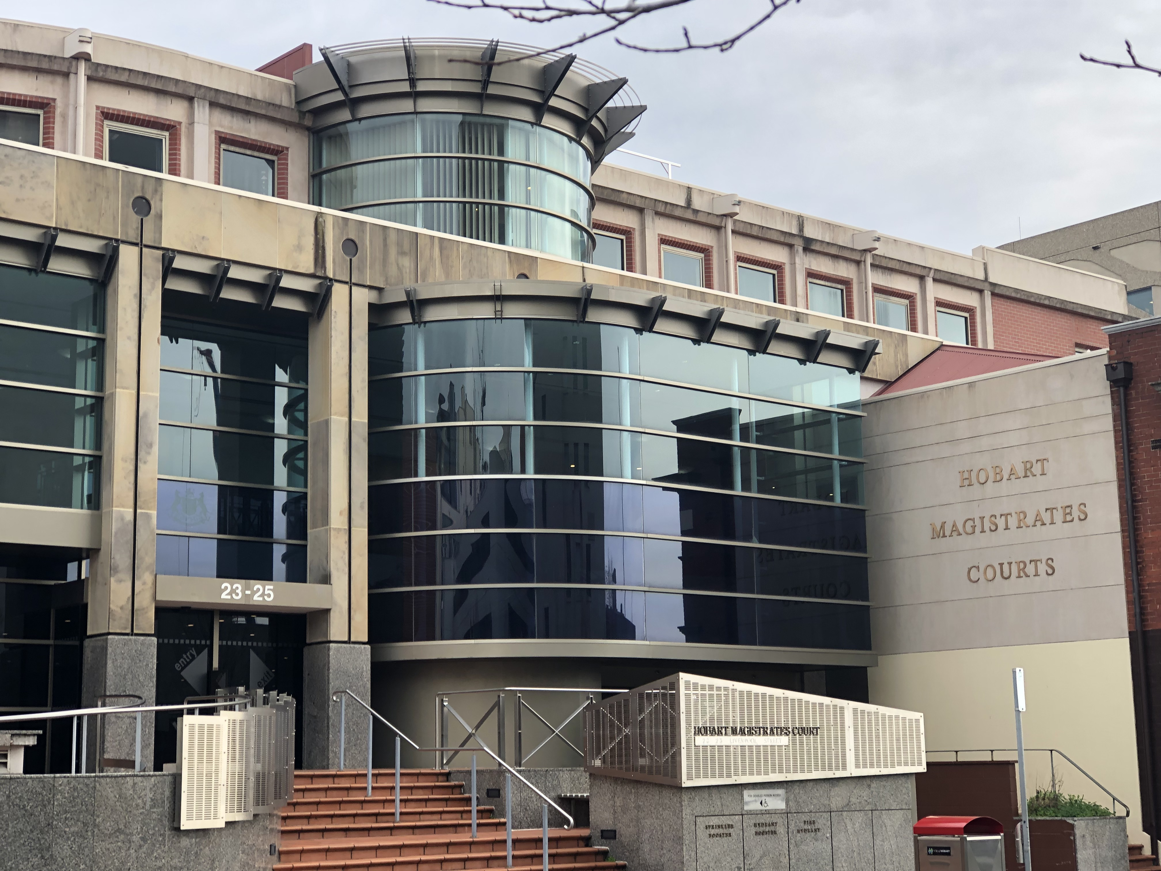 Hobart court building of the Magistrates Court of Tasmania, at 23–25 Liverpool Street, Hobart.